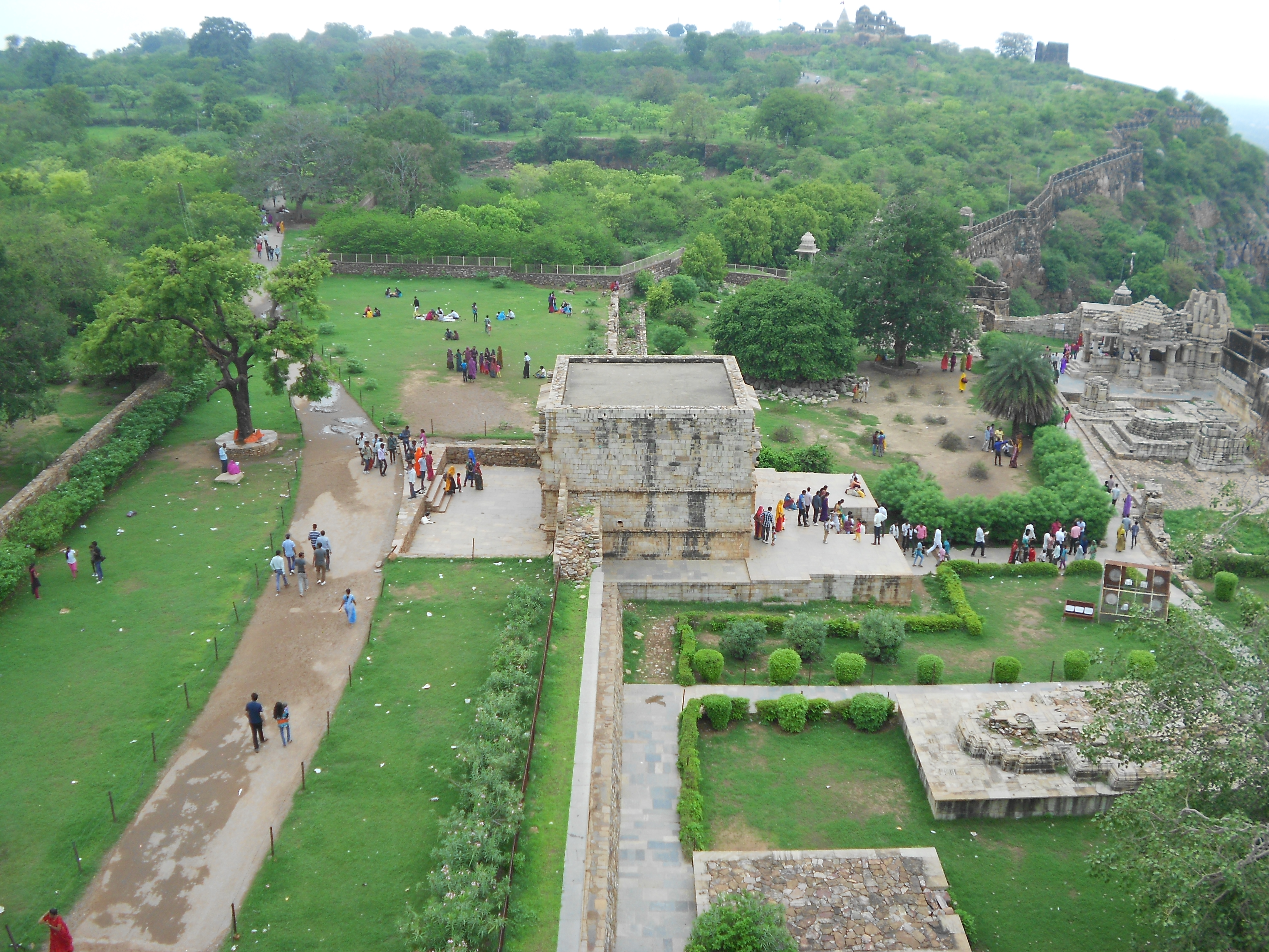 Chittorgarh fort